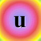 latin letter "u"